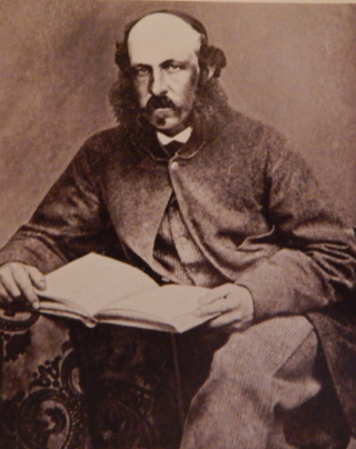 A circa 1867–72 photograph of English painter and illustrator Thomas Hodge.